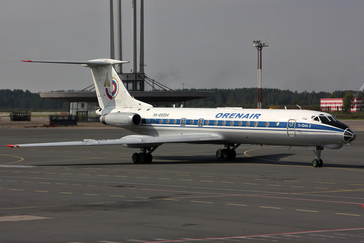 An Orenair (aka Orenburg Airlines) Tupolev Tu-134A-3 at Pulkovo Airport (LED / ULLI)